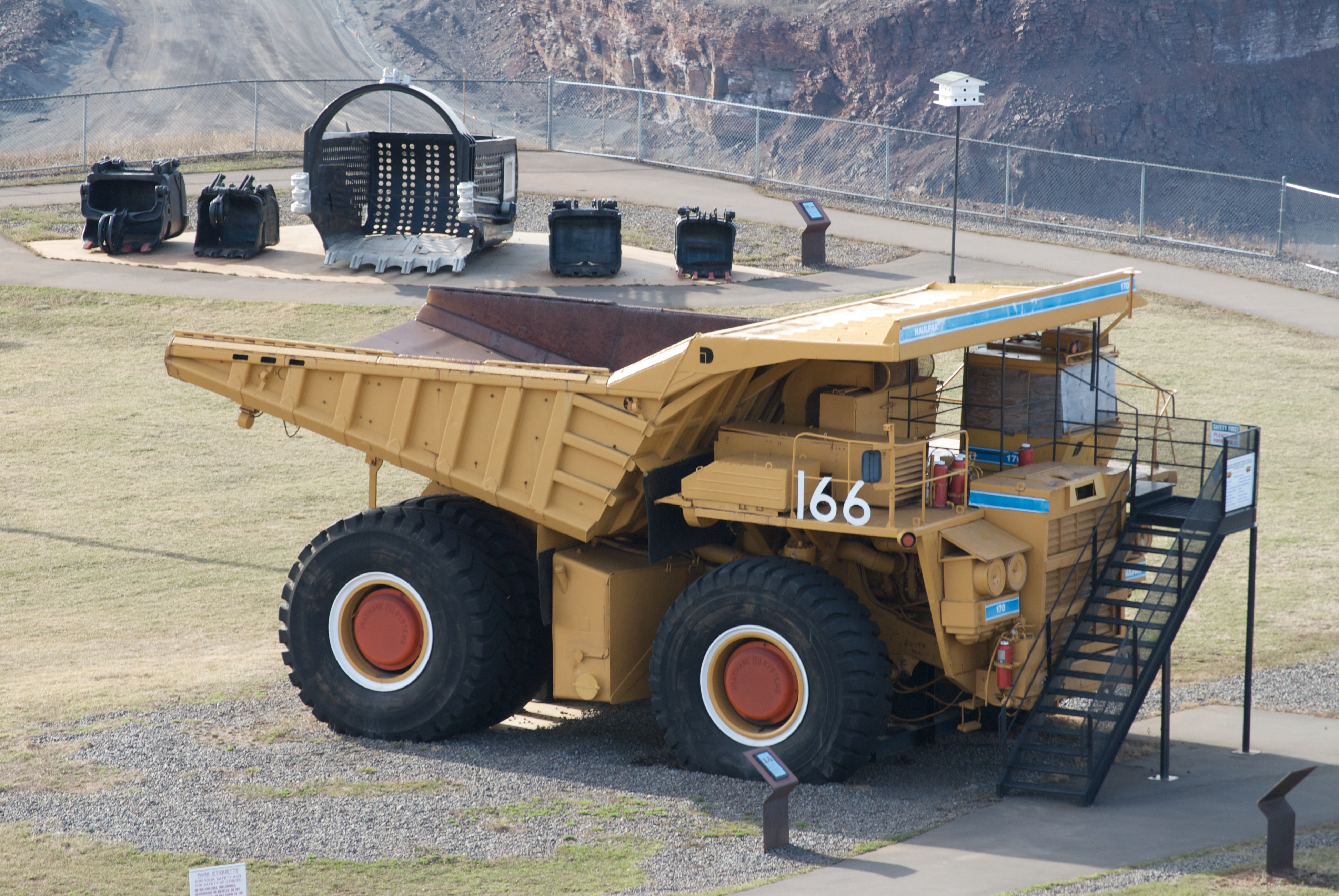 A Minnesota mining museum. Original caption: Any truck that requires either a ladder or a set of stairs in order to get into the cab shouldn't be allowed!